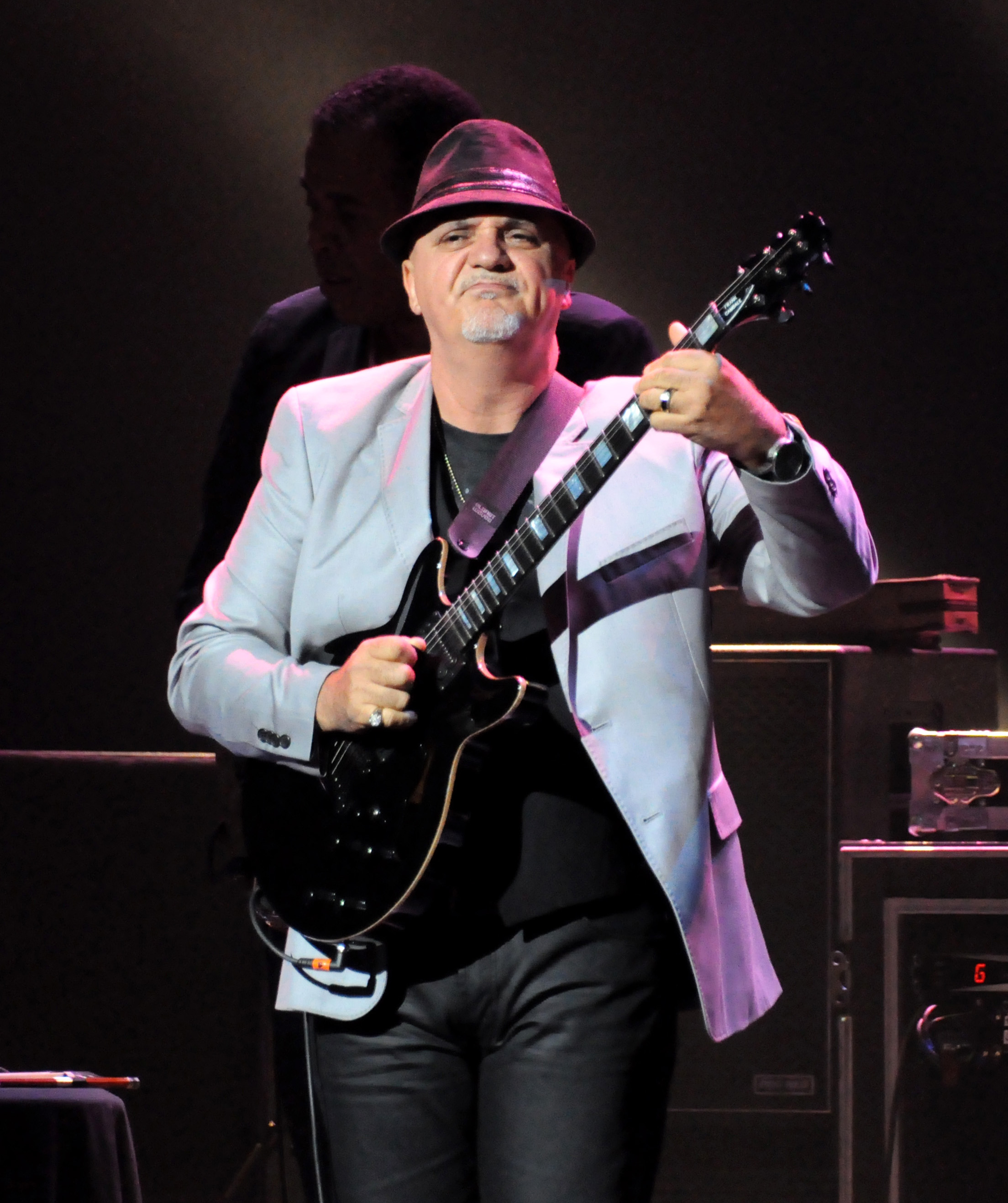 Frank Gambale in Montréal with Return to Forever IV.